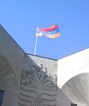 Armenian flag on the Yerevan city hall